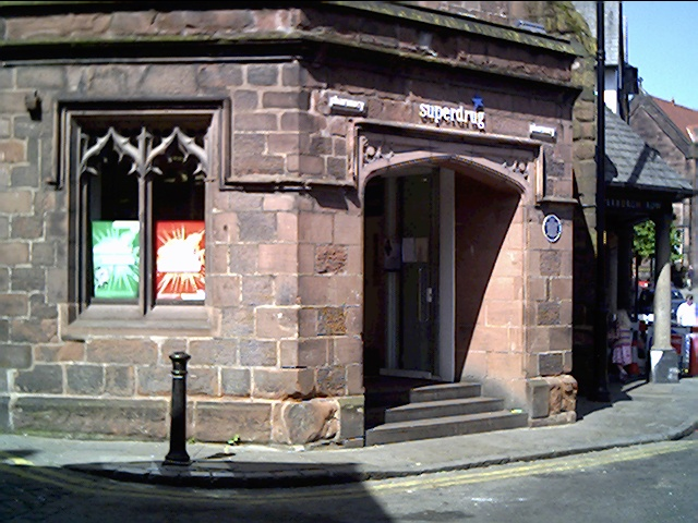 Photograph